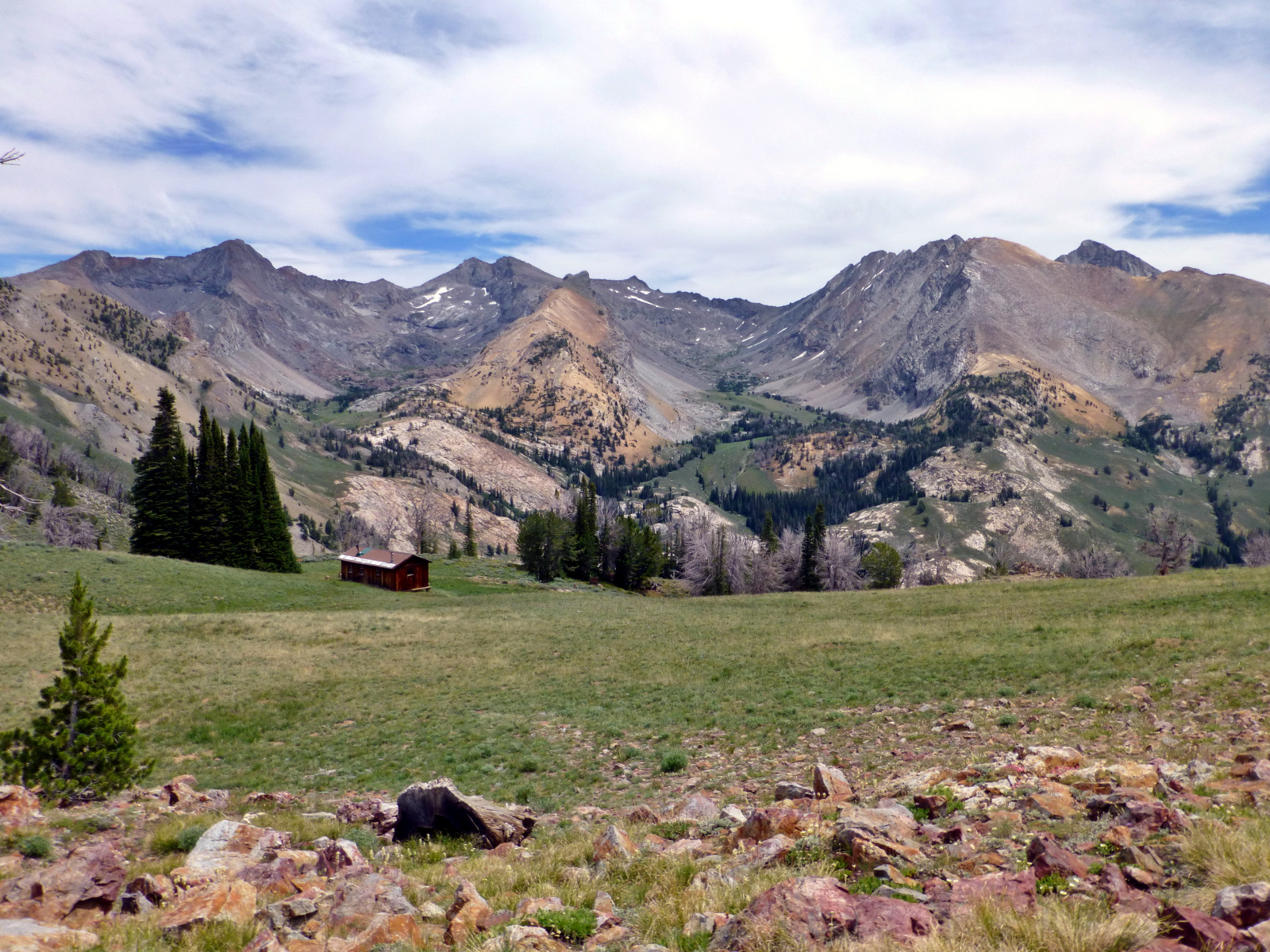 A cabin in the Pioneer Mountains of Idaho